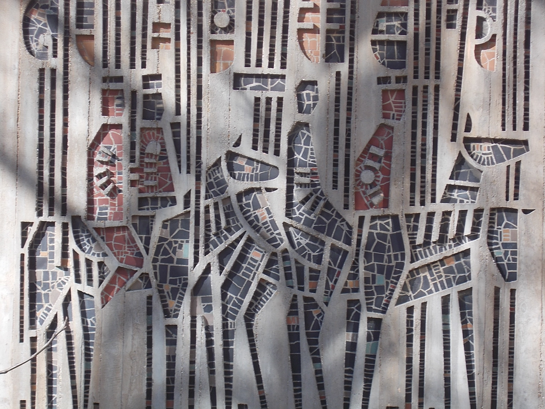 Listed Baroque house. Tóth Árpád Promenade side. - 40 Úri Street, 28 Tóth Árpád Promenade, Várnegyed neighbourhood, Budapest District I.